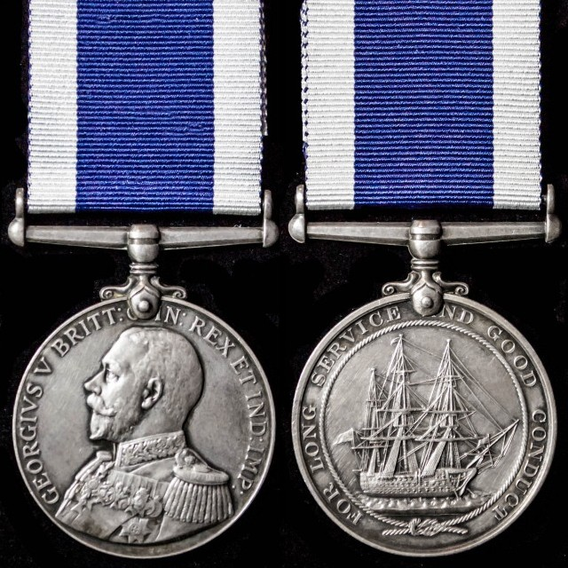 The first King George V version of the Naval Long Service and Good Conduct Medal (1848)